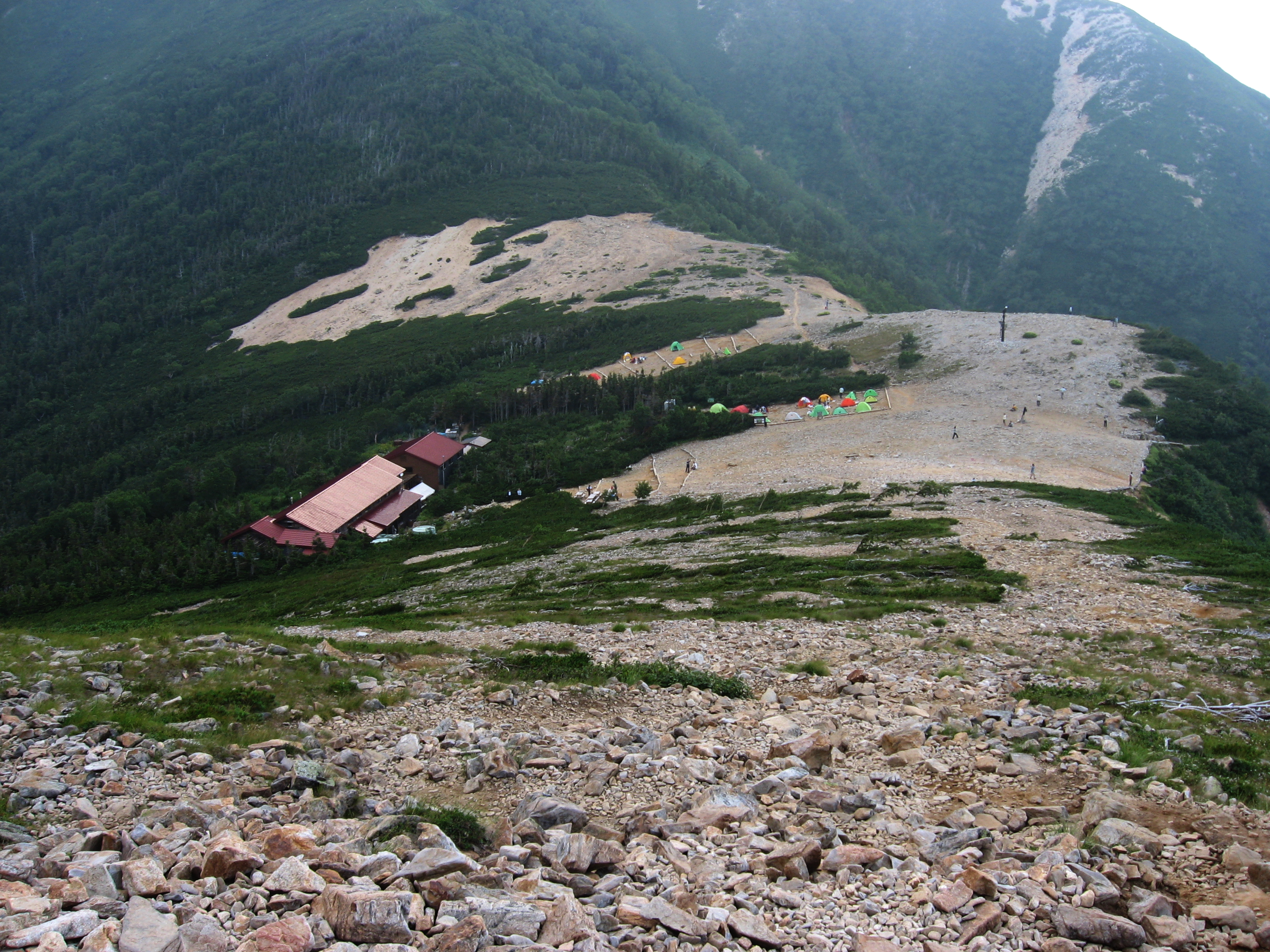 Jonengoya (Jonen Hut) seen from Mount Jonen